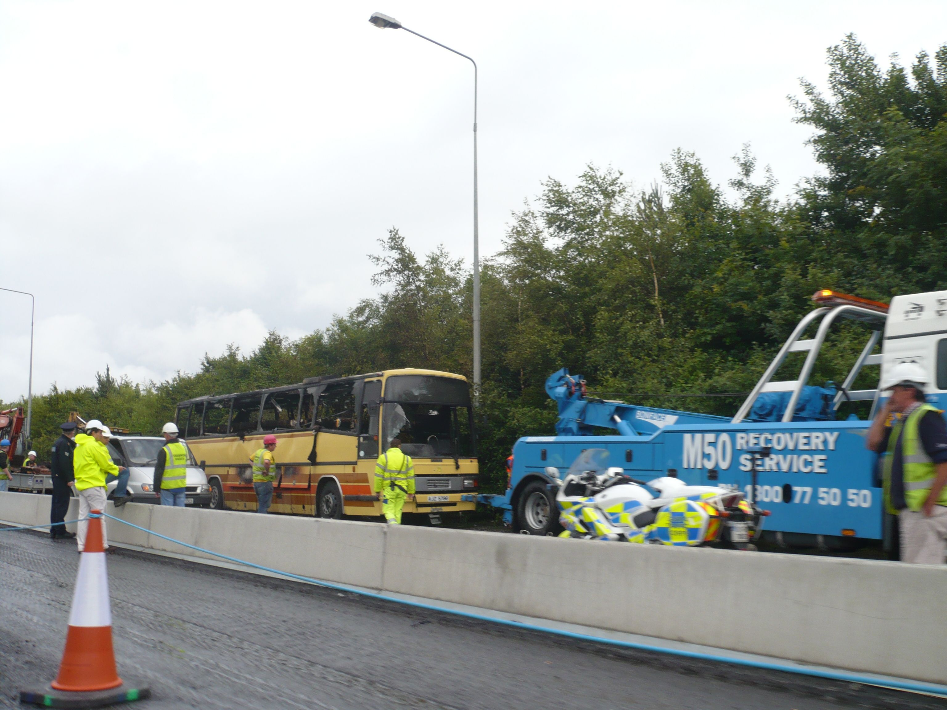 A burnt-out Leyland/Plaxton coach having met fate on the M50 in Ireland. It is registered AJZ 5788, now owned by AV Coach Hire was seen as part of the Yellow Line Fleet in Jan 2006 here.